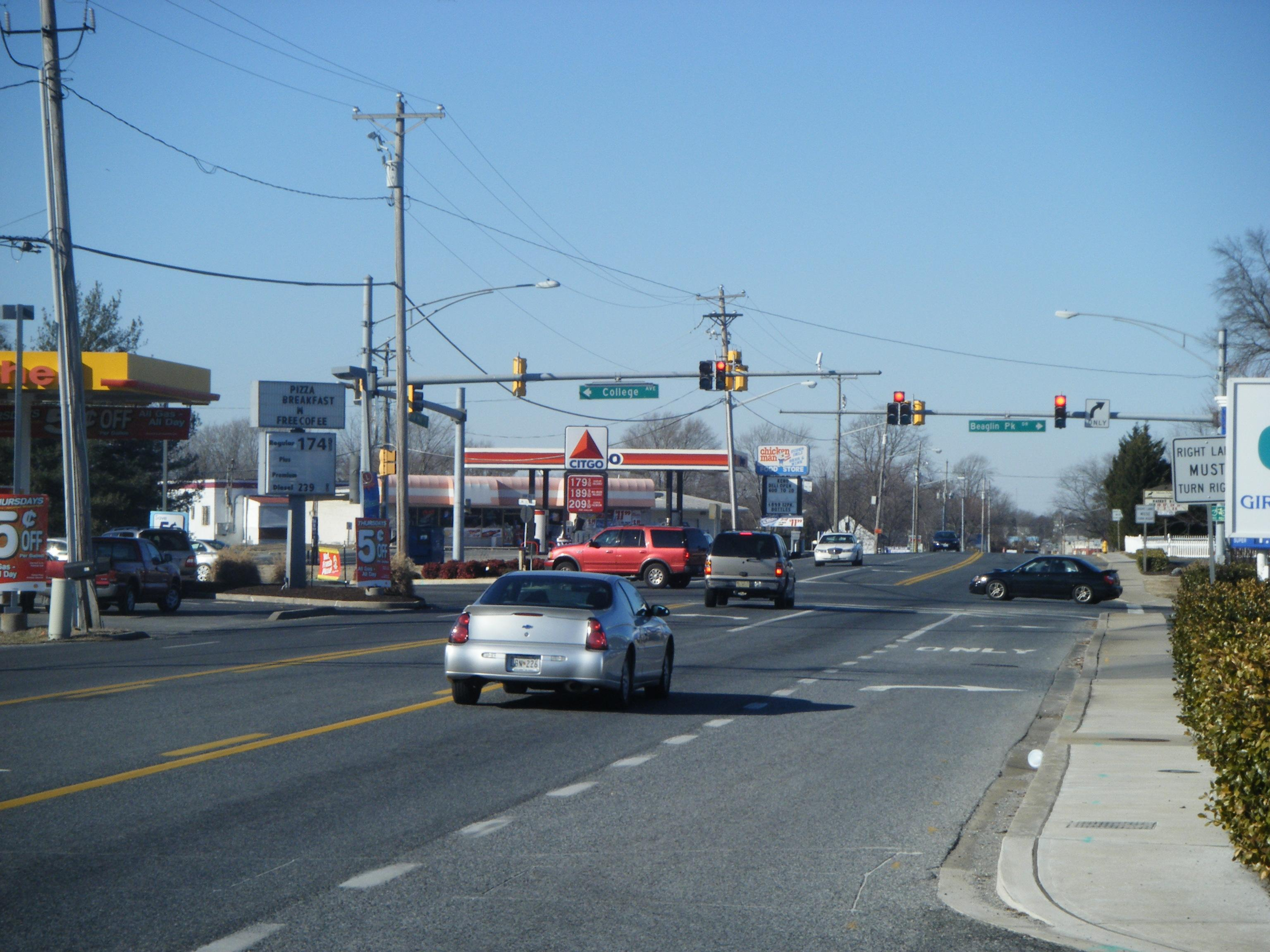 Northbound Maryland Route 12 (Snow Hill Road) at the intersection with College Avenue/Beaglin Park Drive in Salisbury, Maryland.